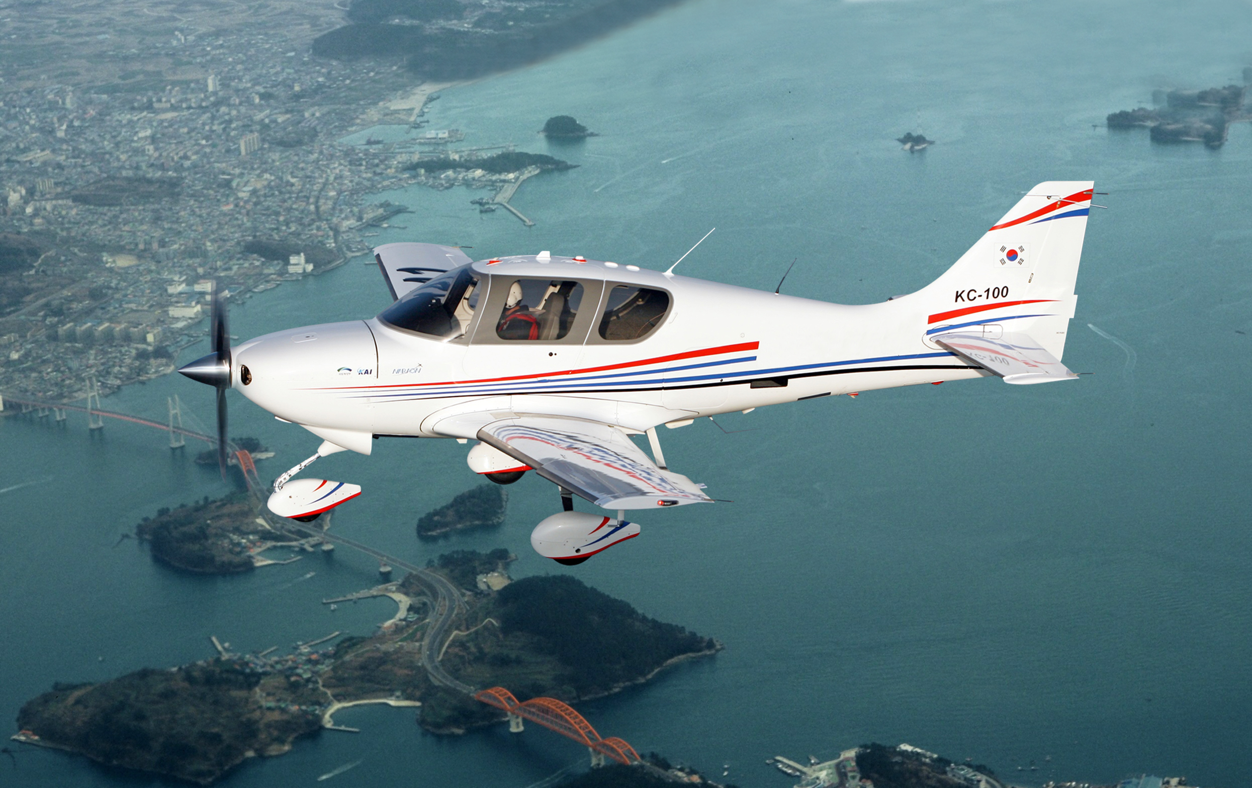 Korean Civil Aircraft KC-100 Naraon / Demo Flight / Photo by KAI 한국항공우주산업